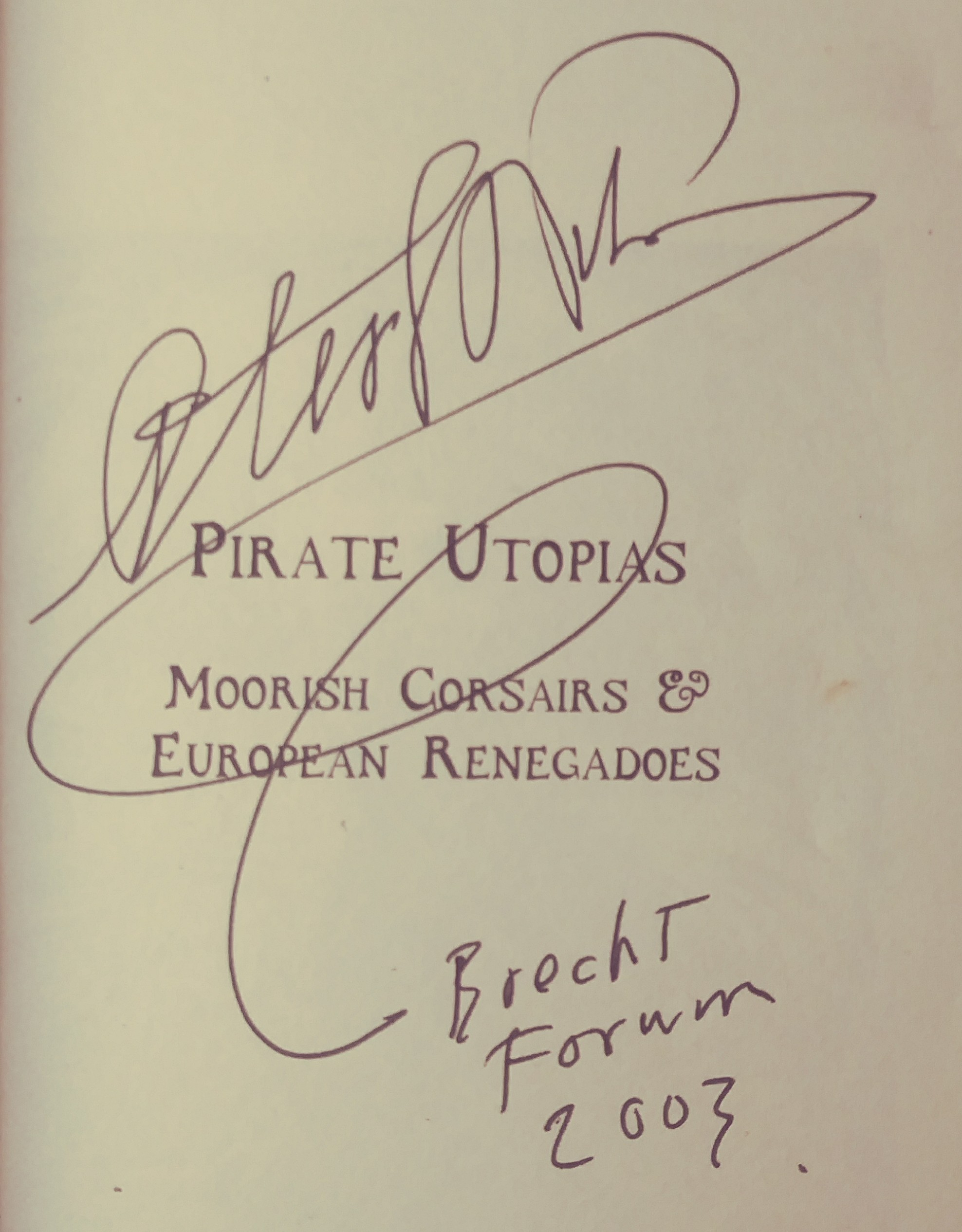 Pirate Utopias by Peter Lamborn Wilson (alias Hakim Bey), signed for Jay Dobkin